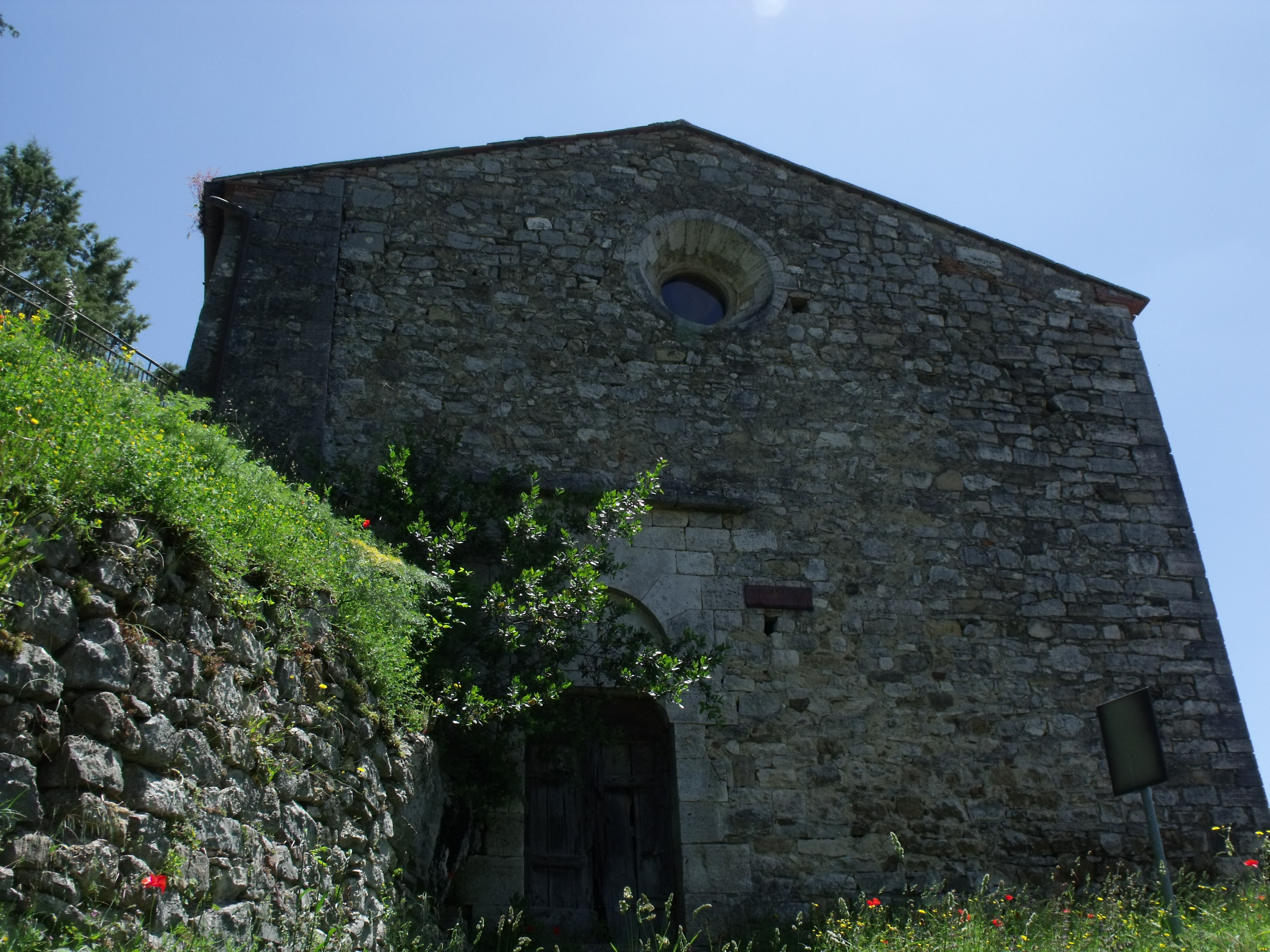 Church of Santa Cristina in Rocchette di Fazio, hamlet of Semproniano, Maremma, Province of Grosseto, Tuscany, Italy